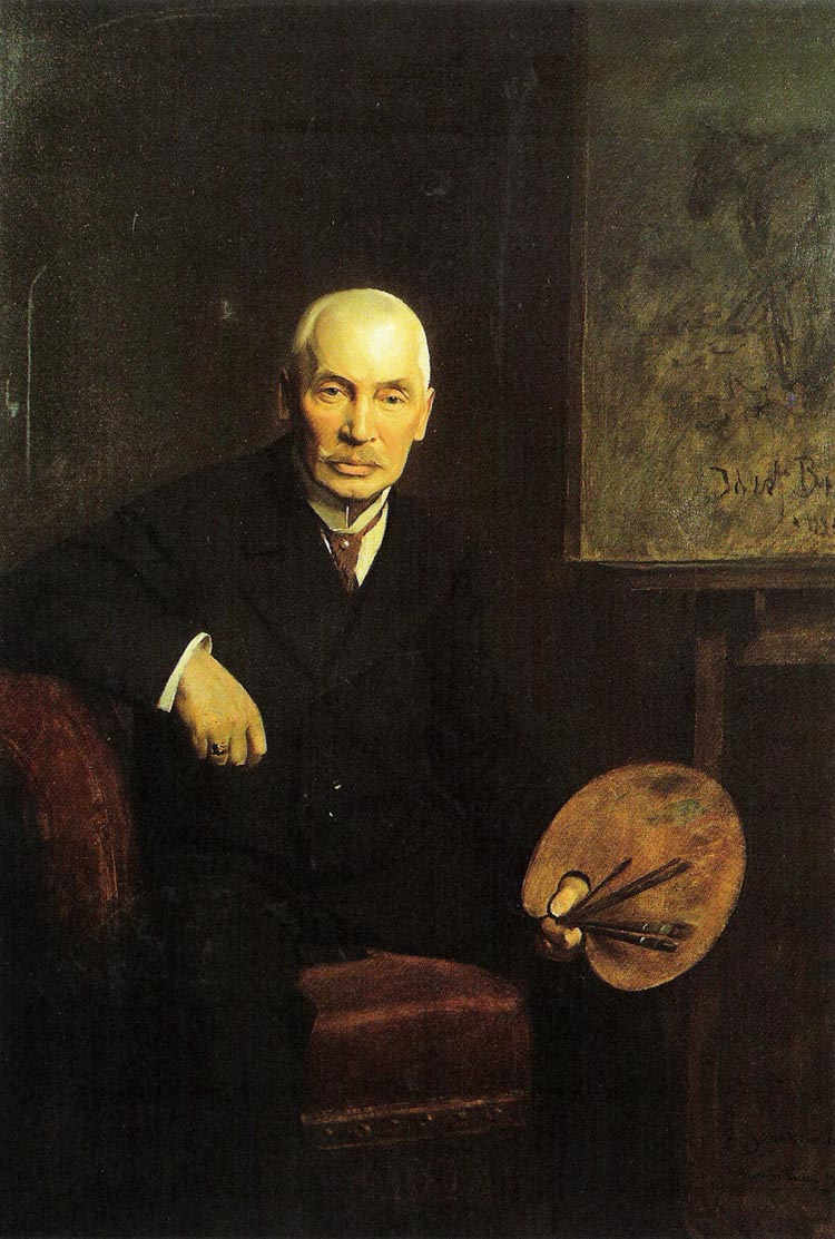 Portrait of the painter Józef Brandt (1841-1915)